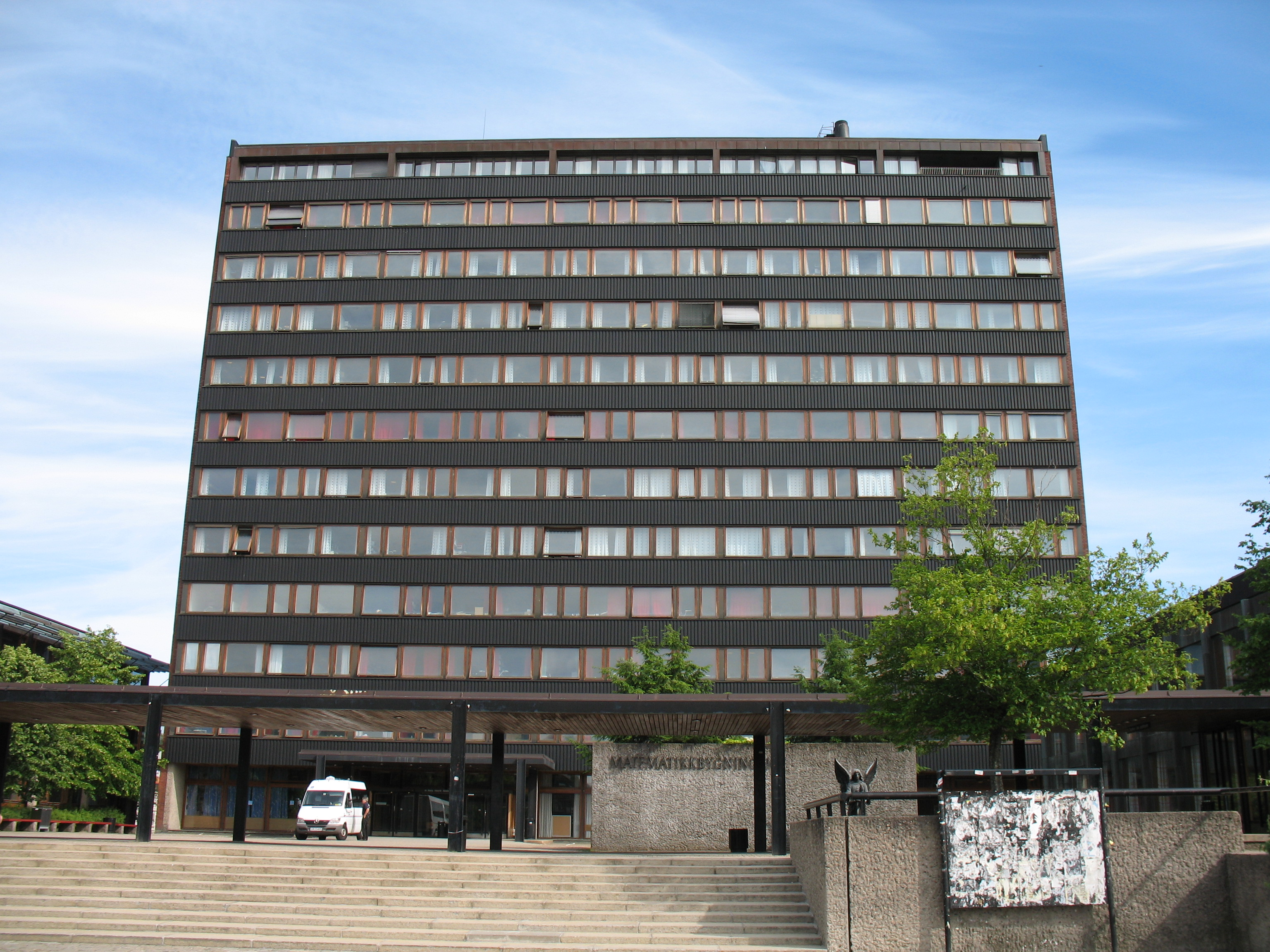 Niels Henrik Abels hus. The University of Oslo